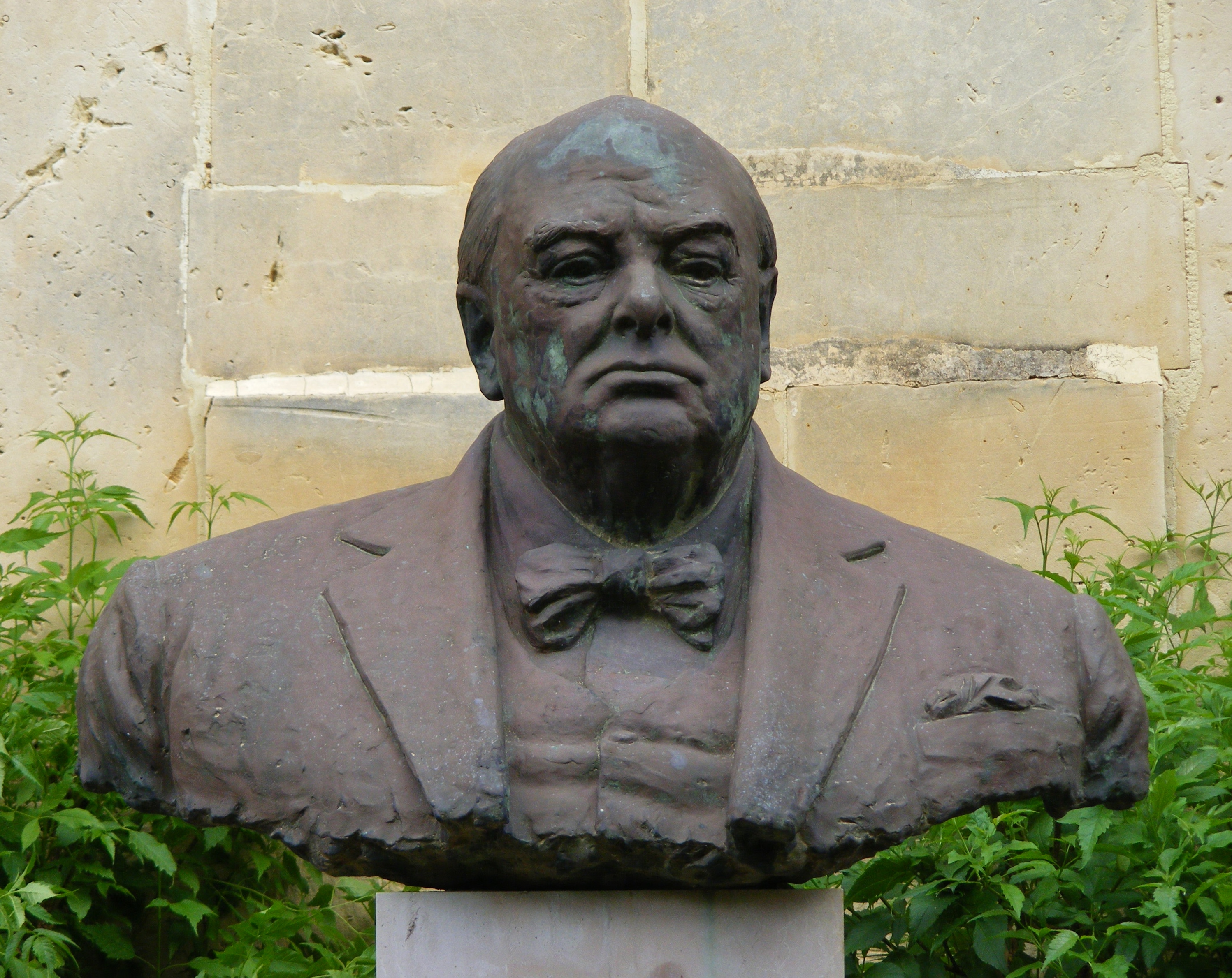 Sir Winston Churchill bust in Upper Barrakka Gardens, Valletta, Malta